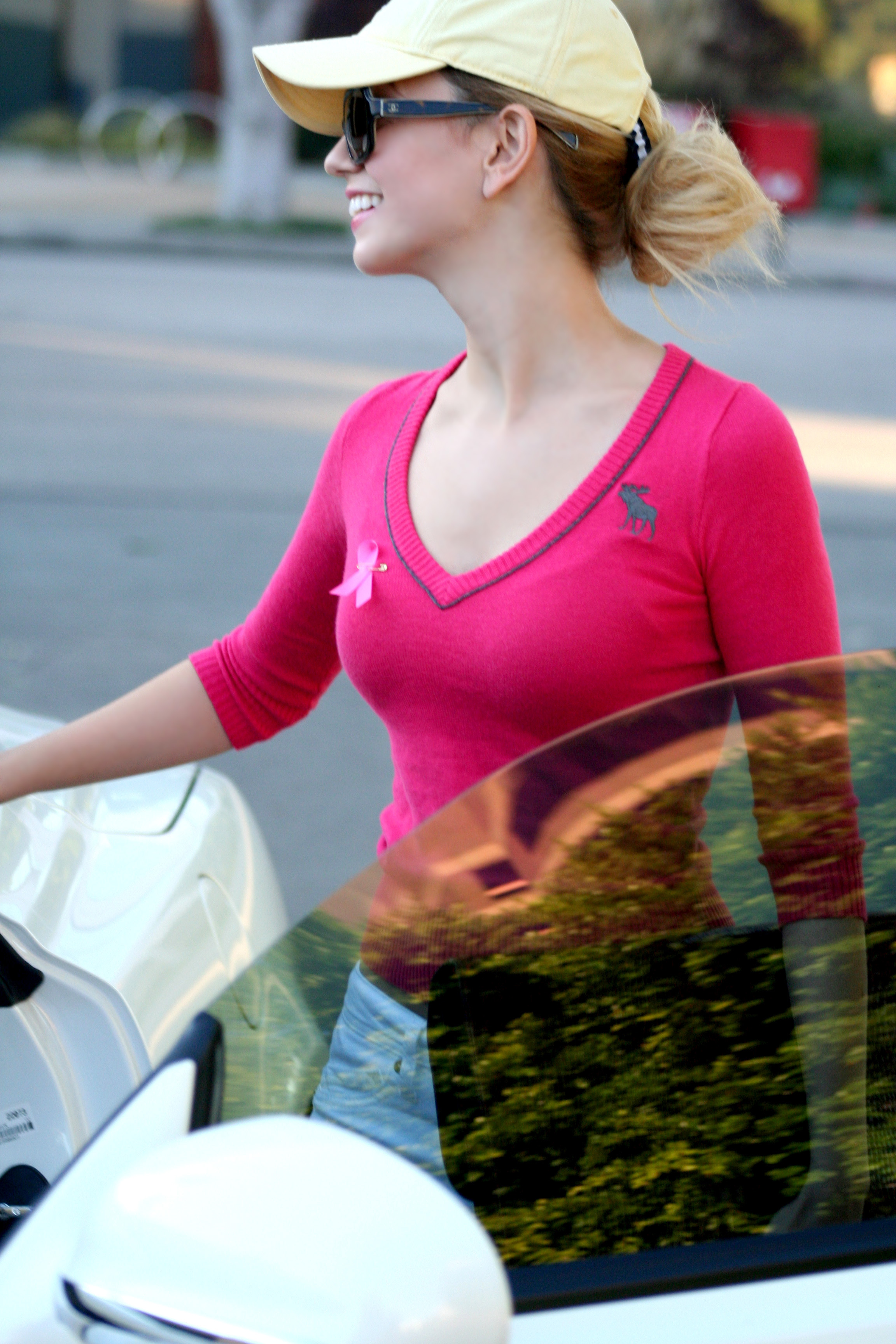 Masiela Lusha arriving at Warner Brothers Studios